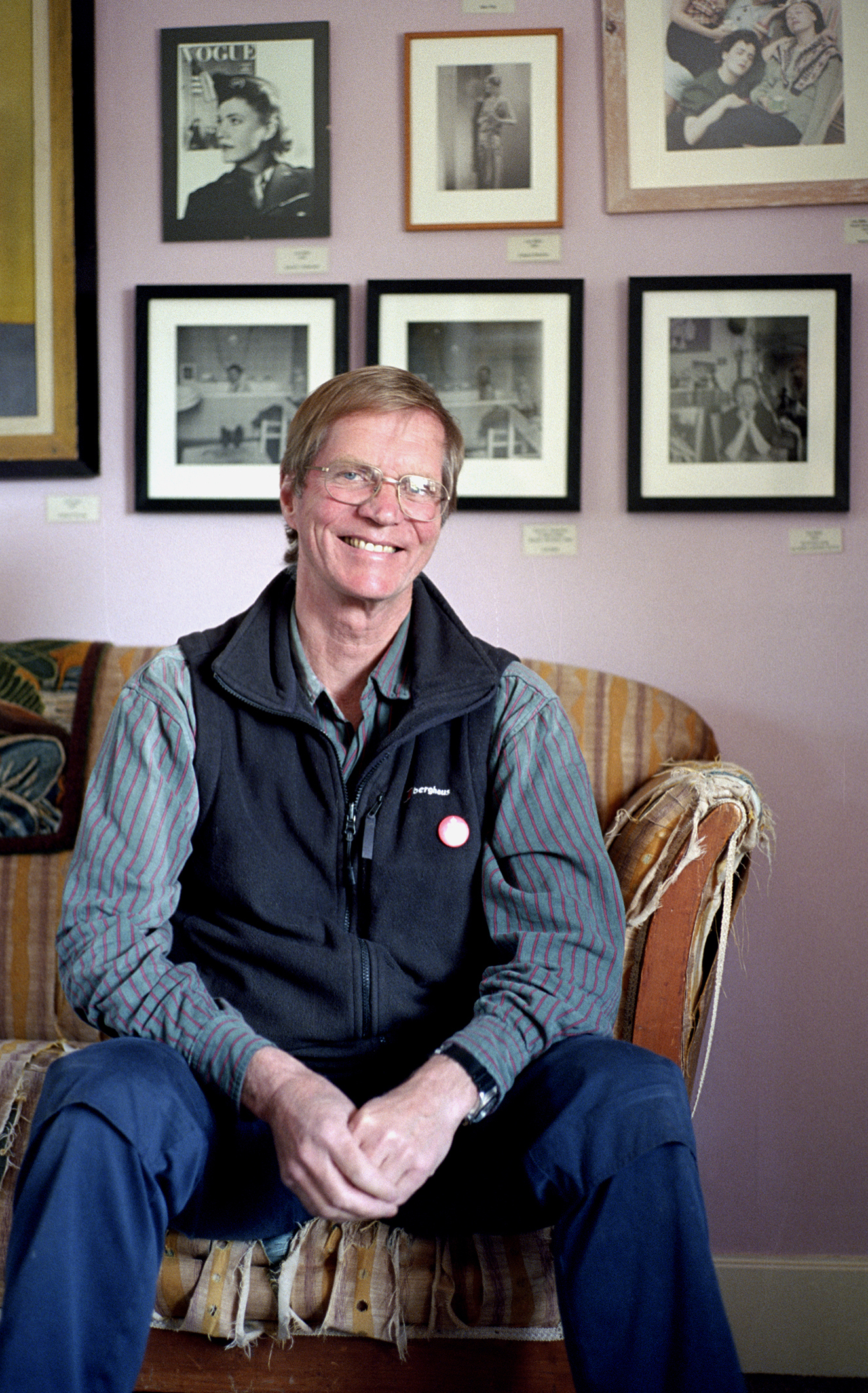 Picture of Tony